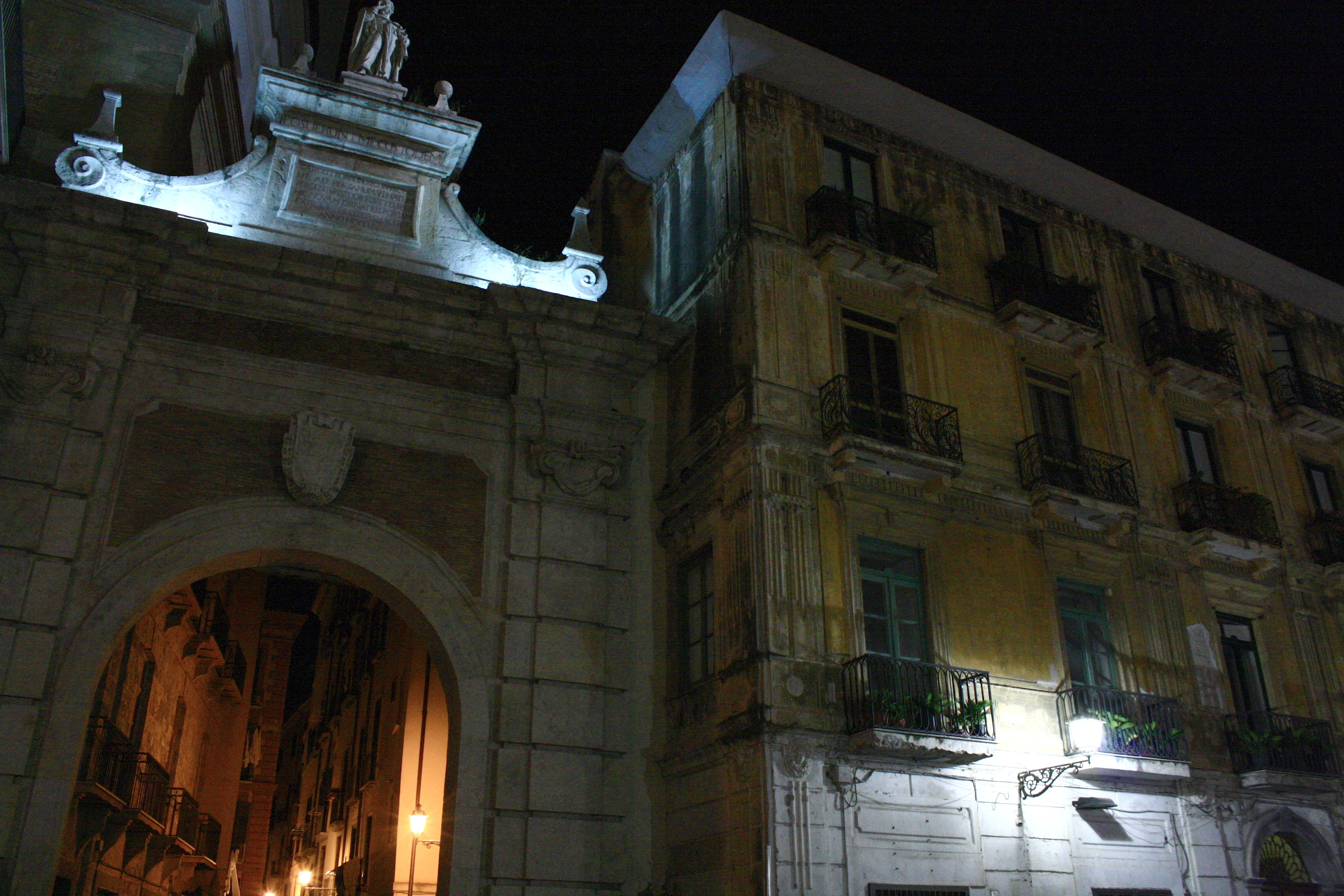 The "new" gate (1700) in Salerno, Italy